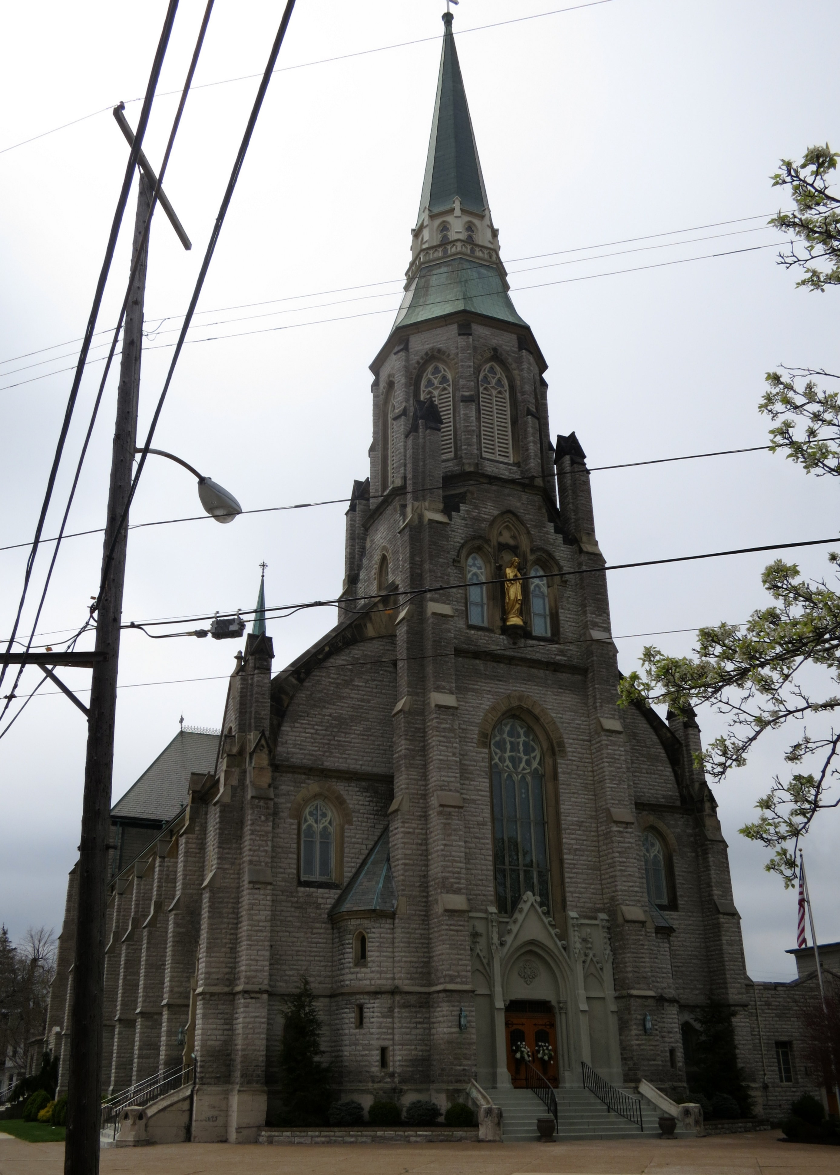 Saint Mary's Catholic Church (Sandusky, Ohio) - exterior 2